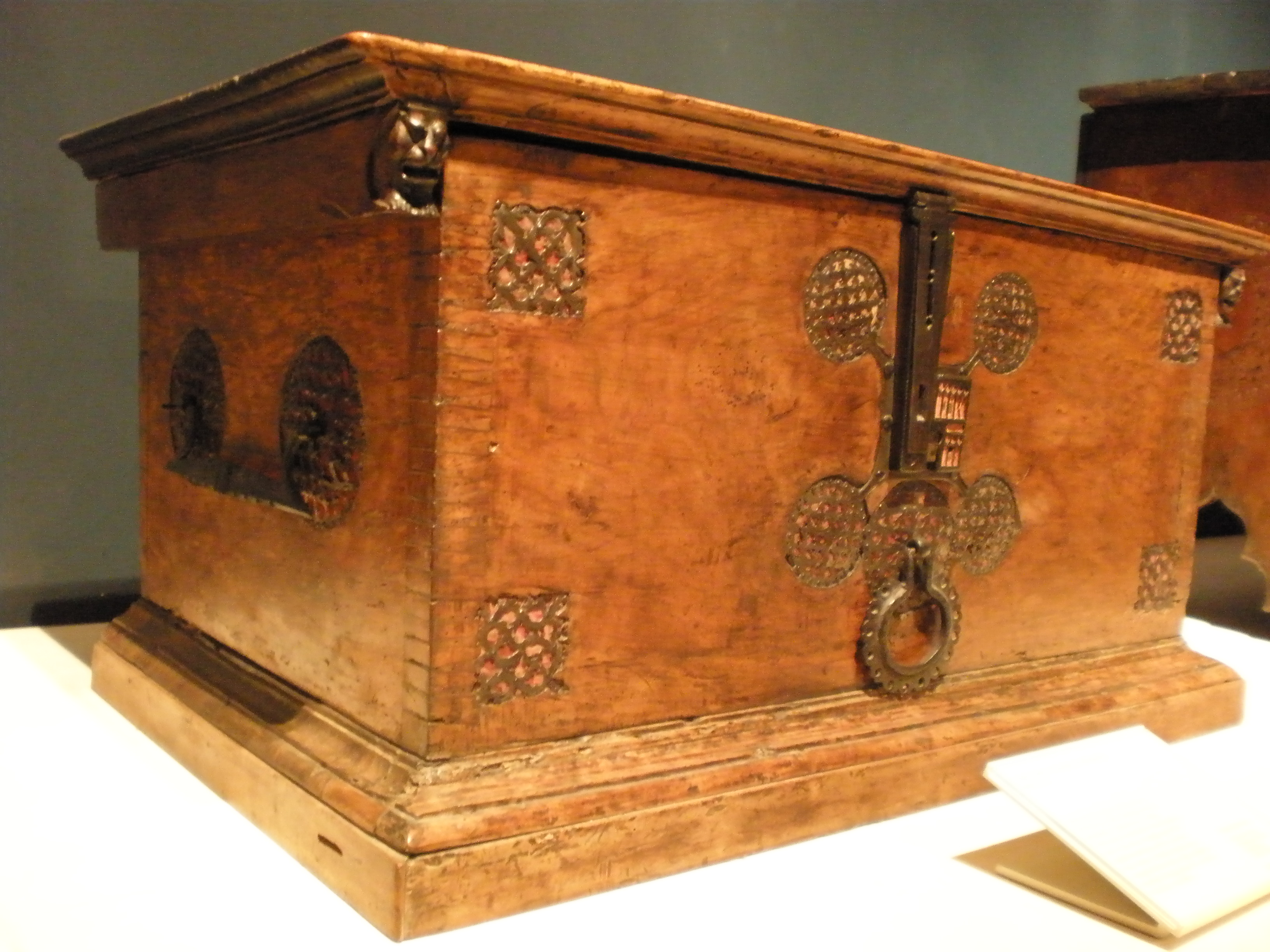 Chest with inlaid interior About 1500 Italy, Friuli-Venezia Giulia Walnut, with iron mounts over textile, and inlay of various woods During the Renaissance, chests were found in most institutions and all but the poorest homes. They were used for storing items such as clothes, linen, documents or money. A chest was often placed at the bottom of a bed, where it would be convenient for keeping the owner's clothes or other valuables, while also providing a place to sit or sleep. This chest combines security and elegance. It is made of walnut boards fixed with meticulous dovetail joints. It uses both internal and external hinges, as well as a steel lock. Inside are three banks of drawers and compartments to hold smaller objects, and space for a false bottom, under which particular treasures could be concealed. Pierced metal mounts (originally silver in colour), set over red textile, decorate the exterior. Inside are geometrical bands of inlay and ivory studs, as well as pierced metal mounts. The chest was clearly smart enough for display, perhaps in the owner's bedchamber or study. Collection ID: 252-1864 This photo was taken as part of Britain Loves Wikipedia in February 2010 by David Jackson.